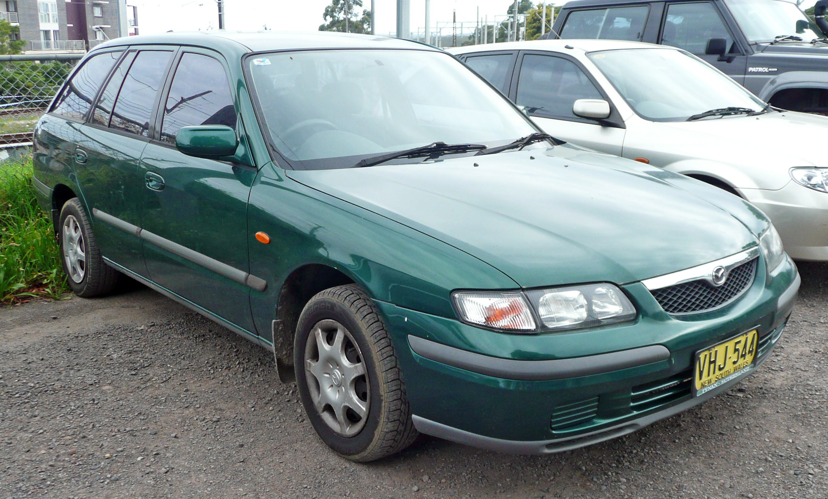 1998 Mazda 626 (GW) Classic station wagon. Photographed in Sutherland, New South Wales, Australia.